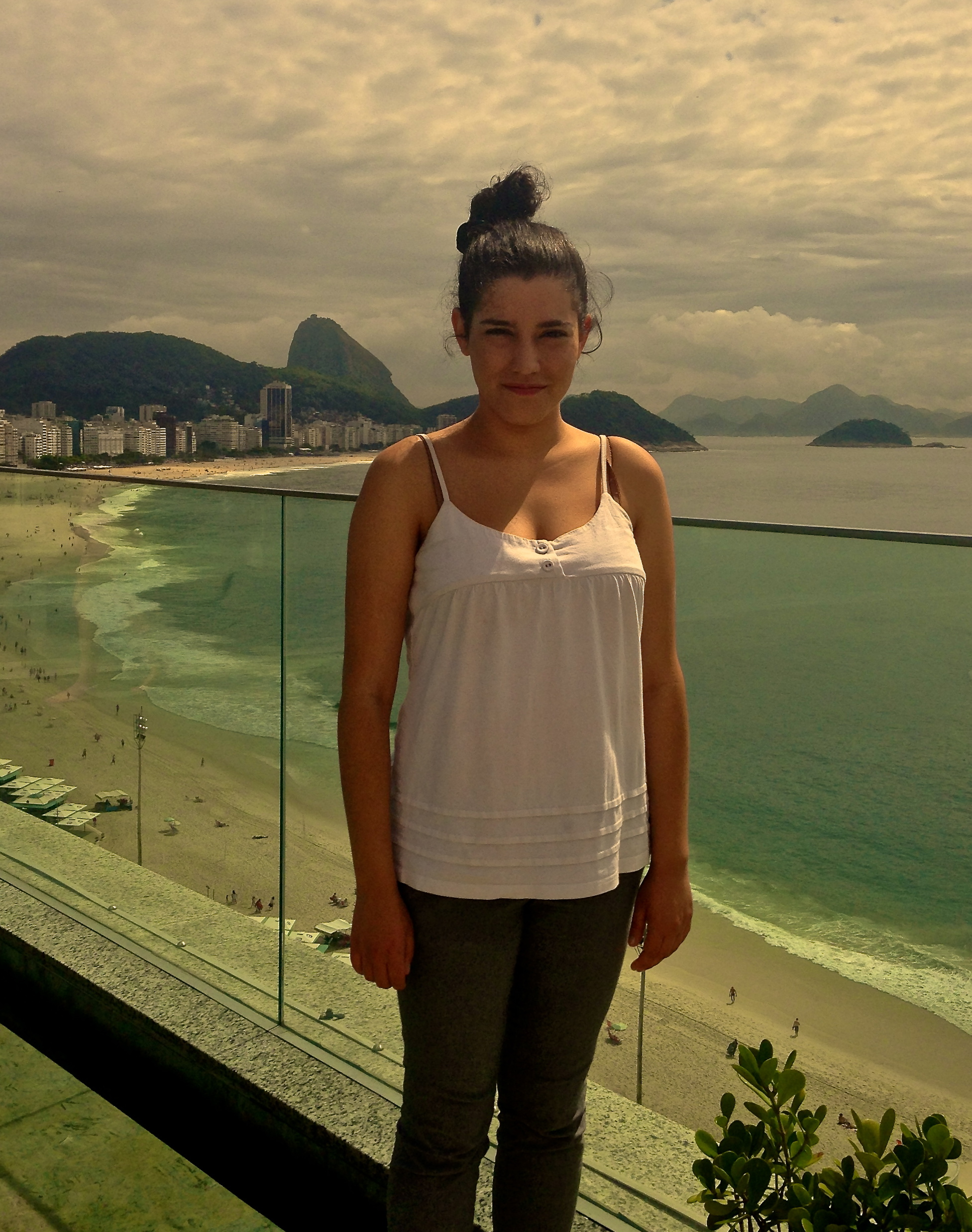 Shani Boianjiu visiting Brazil, 2013